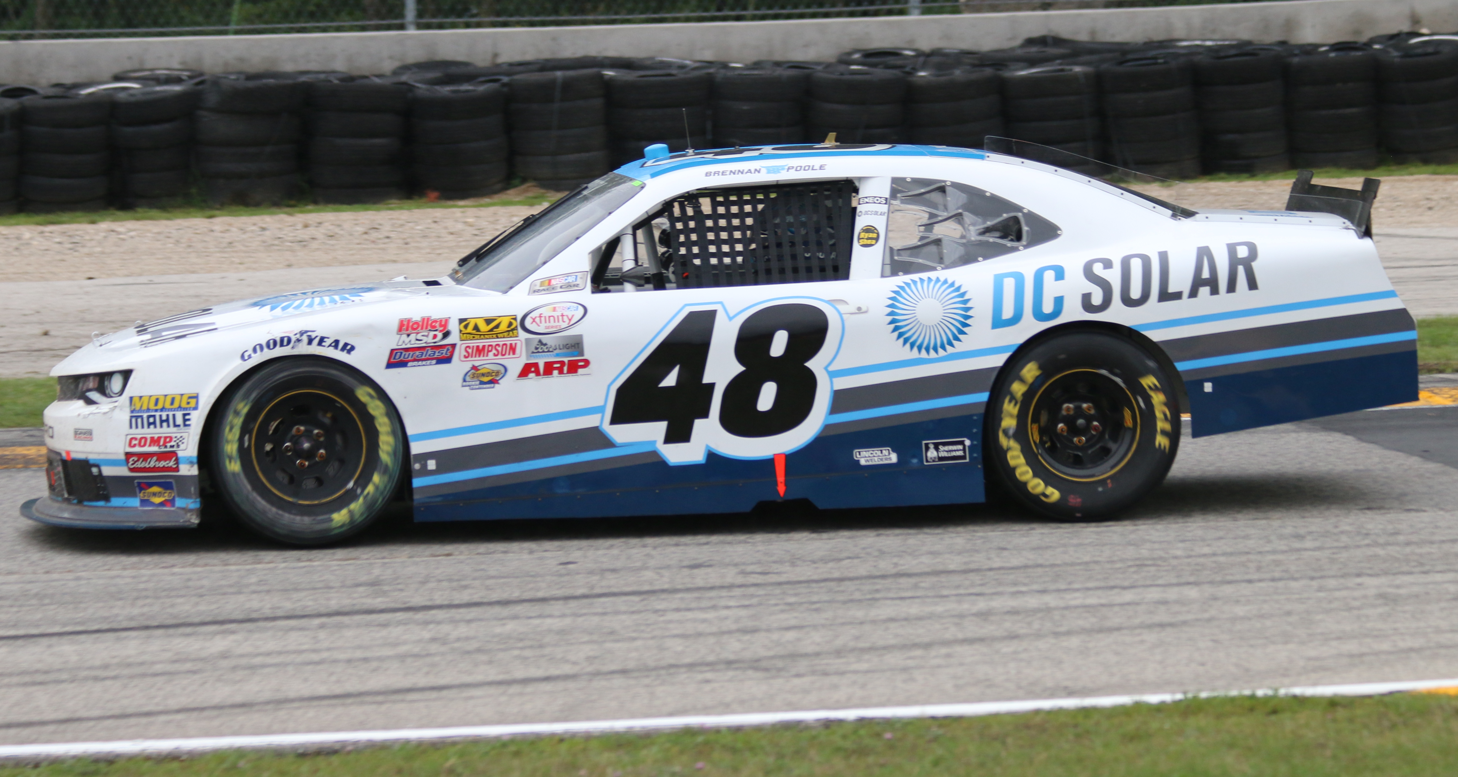 The Chevrolet Camaro of Brennan Poole at the NASCAR Xfinity Series Road America 180.